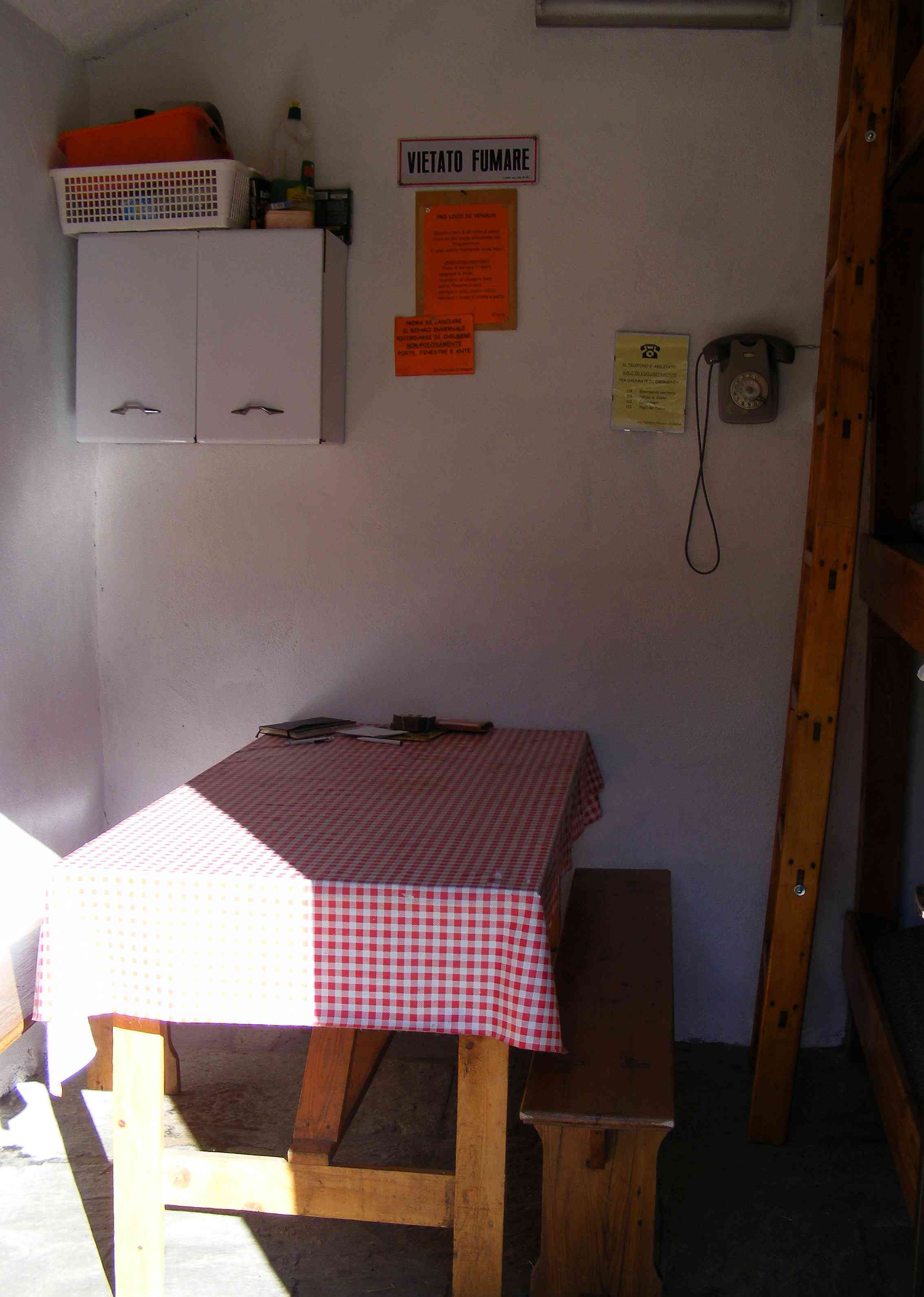 Avanzà alpine hut (2.578 m s.l.m., Cottian Alps, TO, Italy): winter room